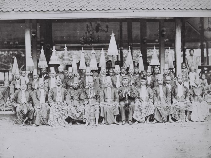 Groupportrait of the ruler of Blitar with his suite.